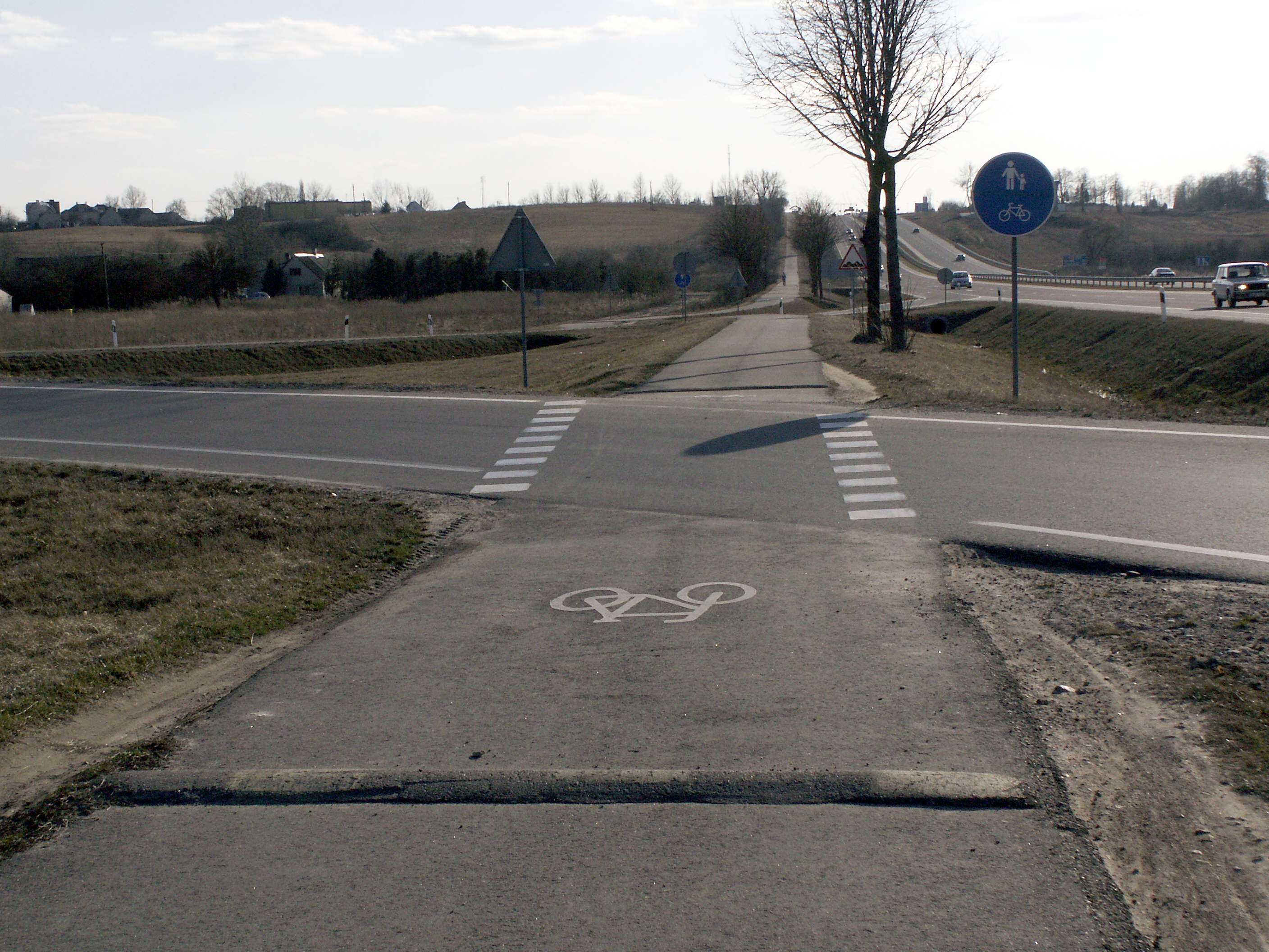 Speedbump in a bicycle route near Šiauliai, Lithuania